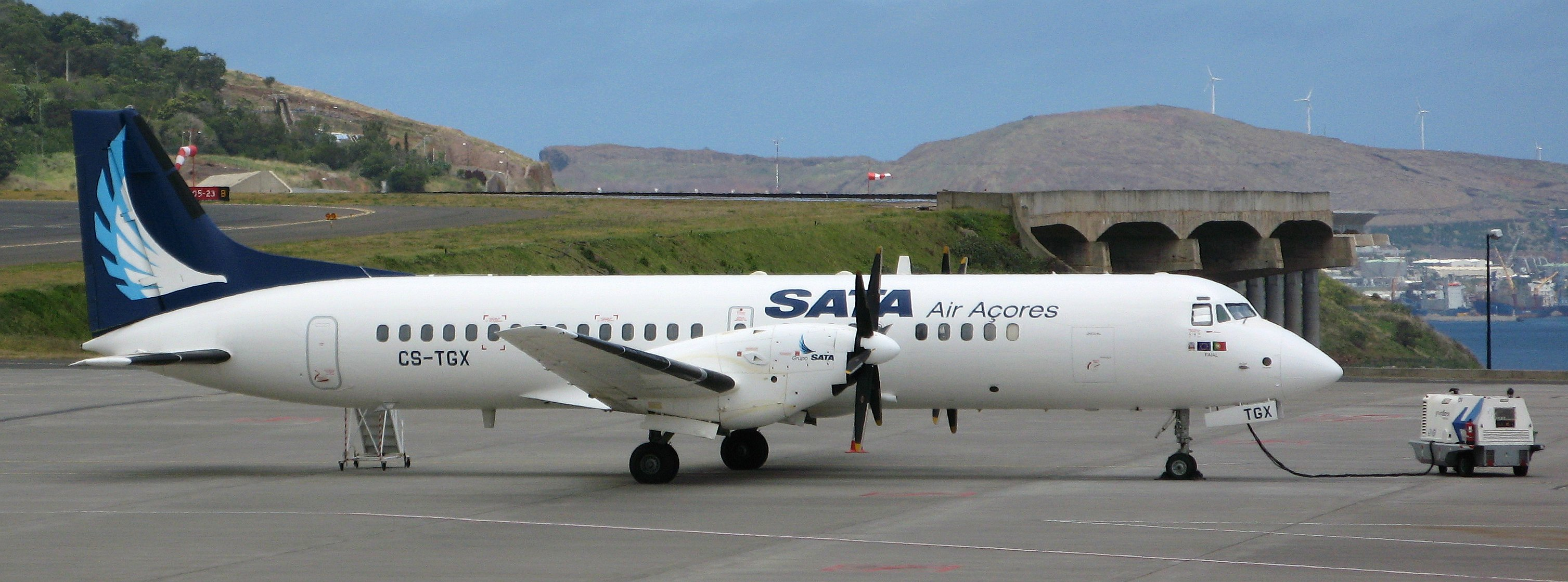 SATA Air Açores CS-TGX @ Funchal airport, Madeira, Portugal. The aircraft is a BAe ATP.